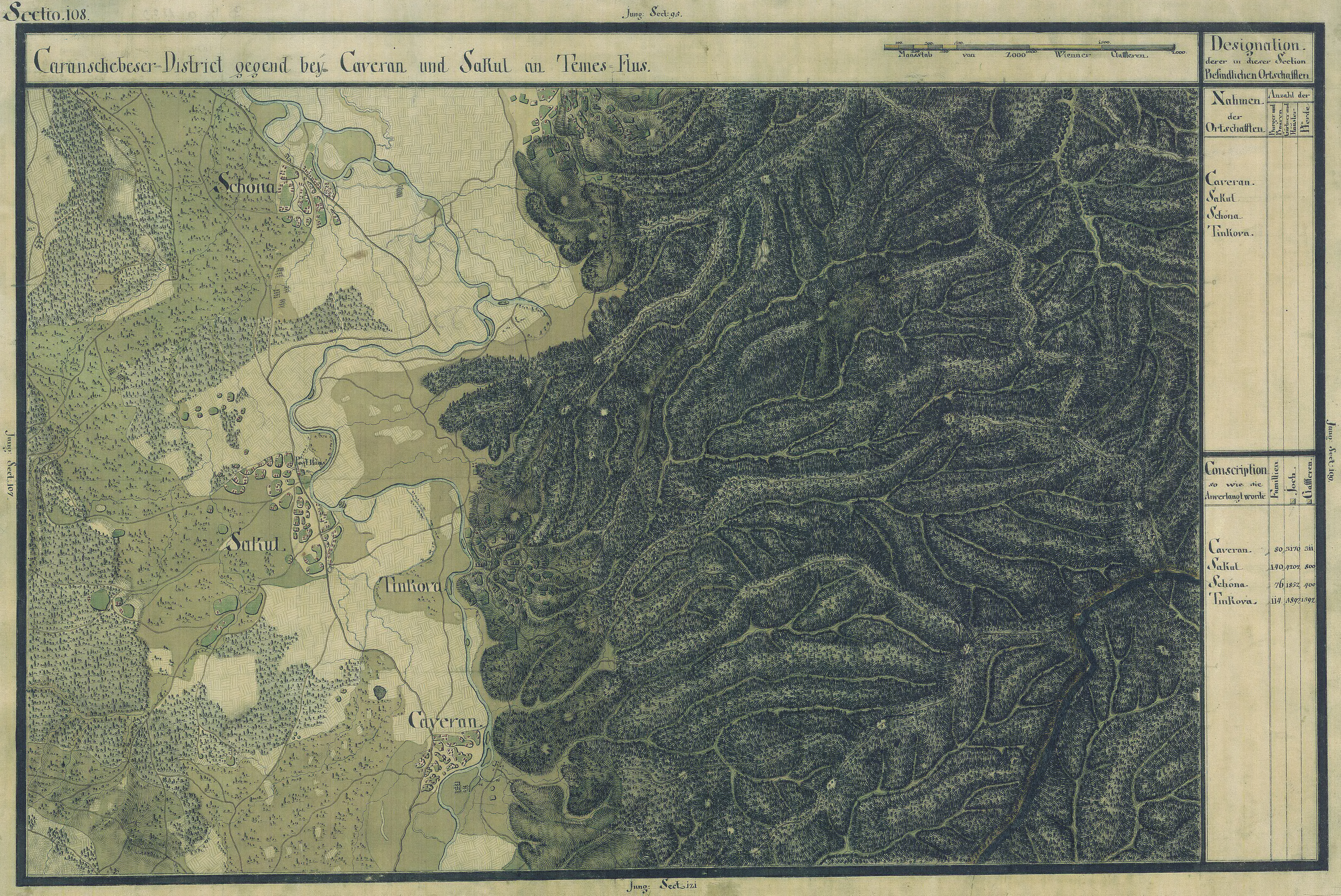 The Banat region in the cadastral maps: Josephinische Landesaufnahme, 1769-72. Josephinische Landaufnahme pg108